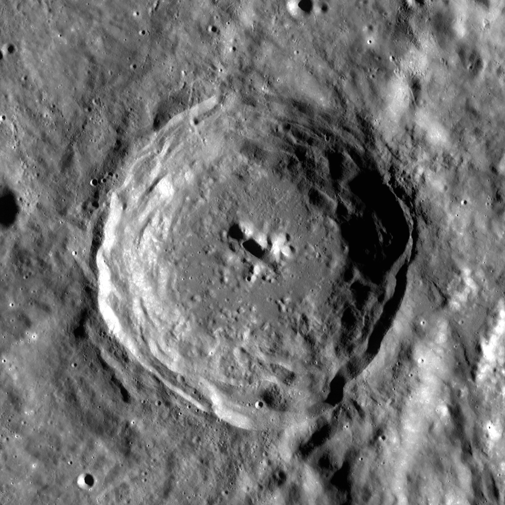 Crater Wrottesley on the Moon. Mosaic of photos by Lunar Reconnaissance Orbiter, made with Wide Angle Camera. Size of the image is 90×90 km, north is up.